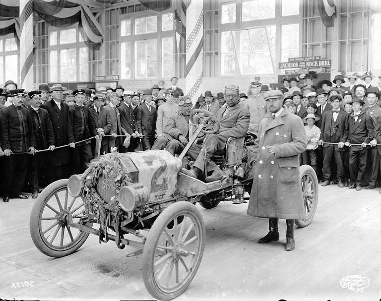 One of two cars entered by the Ford Motor Company in the contest for M. Robert Guggenheim trophy. Driven by Bert Scott and C.J. Smith. M. Robert Guggenheim is shown standing to the right of the car. Subjects (LCSH): Ford Model T automobile; Automobiles--Washington (State)--Seattle; Scott, Bert; Guggenheim, M. Robert; Alaska-Yukon-Pacific Exposition (1909 : Seattle, Wash.); Exhibitions--Washington (State)--Seattle